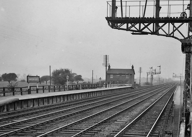 Broomfleet railway station. Broomfleet, East Riding of Yorkshire, England. View westward, towards Selby, Goole and Doncaster; ex-North Eastern main lines into Hull from Leeds via Selby and Doncaster via Goole. Still open!